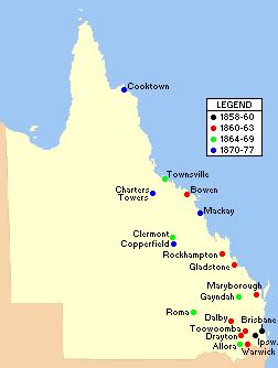 Map of municipalities created in the Australian state of Queensland between 1858 and 1877.